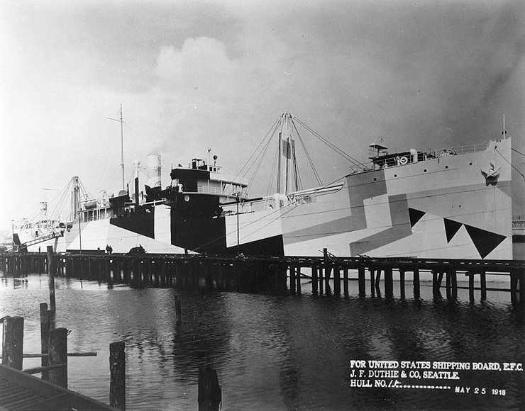 West Bridge (American Freighter, 1918) photographed by her builder, J.F. Duthie & Company, Seattle, Washington, on 25 May 1918, showing her as completed, painted in pattern camouflage. On 25 May she was acquired by the Navy, and on 27 May she was placed in commission as USS West Bridge (ID # 2888). The ship was returned to the U.S. Shipping Board on 1 December 1919. The original print is in National Archives' Record Group 19-LCM. U.S. Naval Historical Center Photograph. The original of this photograph is in the United States National Archives in: Record Group 19: Records of the Bureau of Ships, 1940 - 1966), ARC ID: 348 Series: Construction and Launching of Ships, compiled ca. 1930 - ca. 1955, ARC ID: 512915 / Local ID: 19-LCM According to the National Archives, all materials in this series are "unrestricted" for use or reproduction.